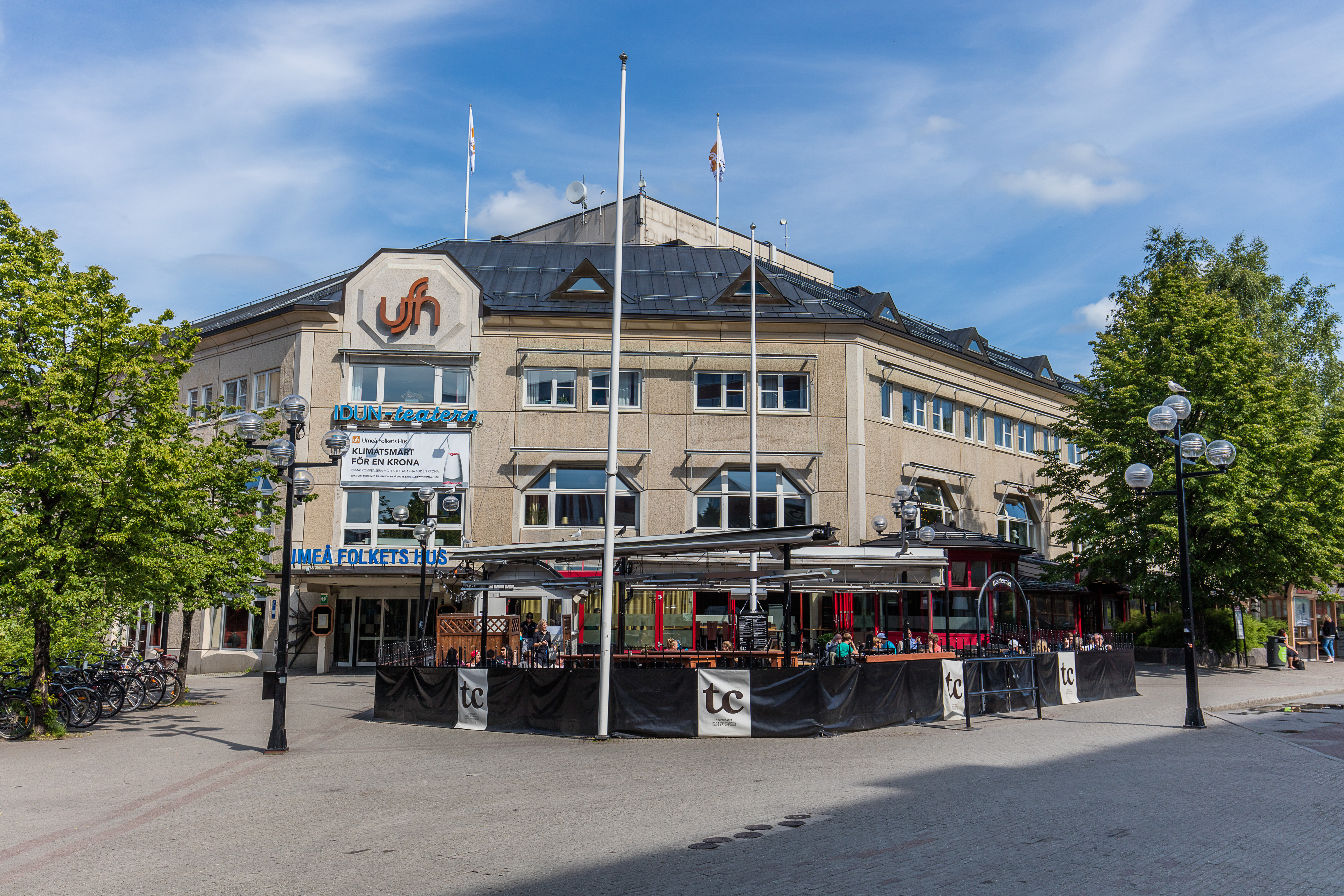 Umeå Folkets hus, with outdoor restaurant TC.